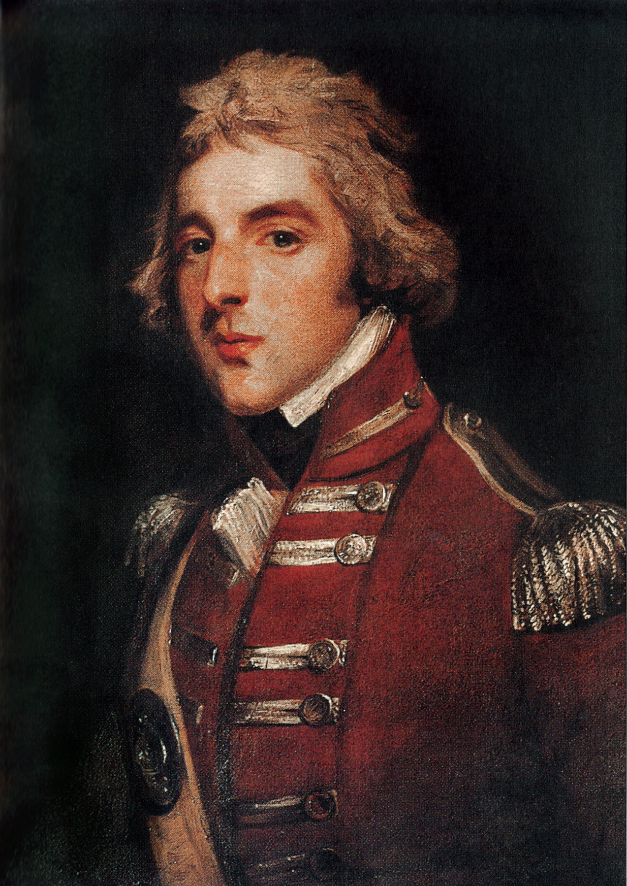 Photo of upper body of 1st Duke of Wellington photo taken by myself, part of a painting.